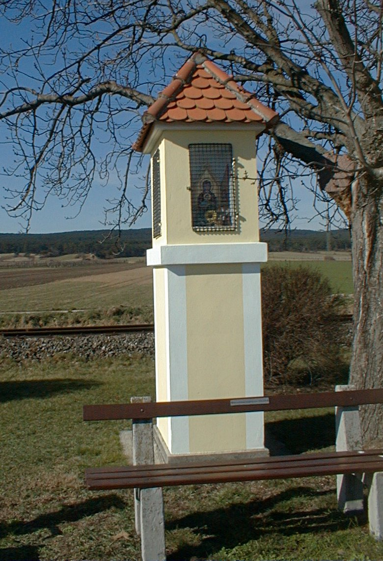 Wayside shrine at the northern entry to Hölles (Matzendorf-Hölles/Lower Austria)